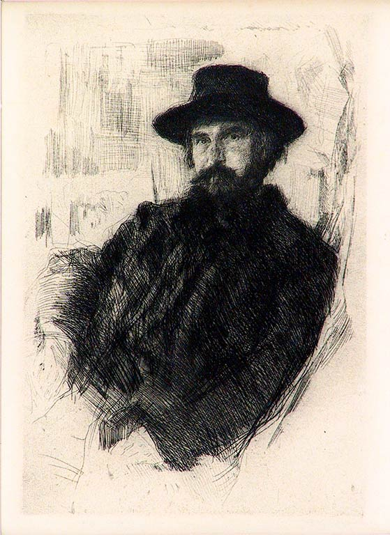 Portrait of engraver Vasily Mate. Etching. Kaluga Art Museum. // Note: Museum, probably incorrectly, names the subject V. A. Mathe, although other sources clearly identify this print as Vasily (V. V.) Mathe [1], [2] etc.